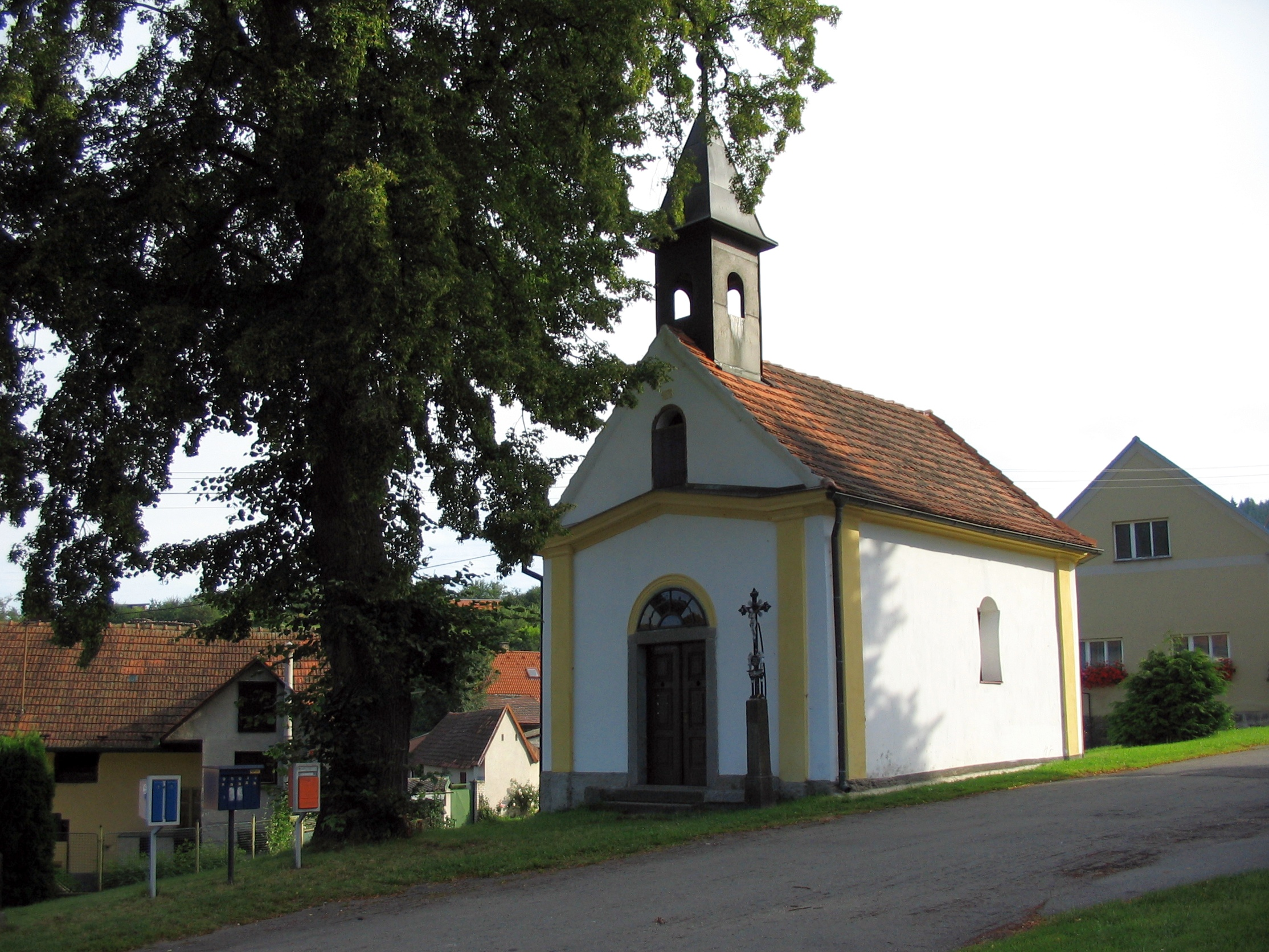 Zvotoky village square, Strakonice District, Czech Republic